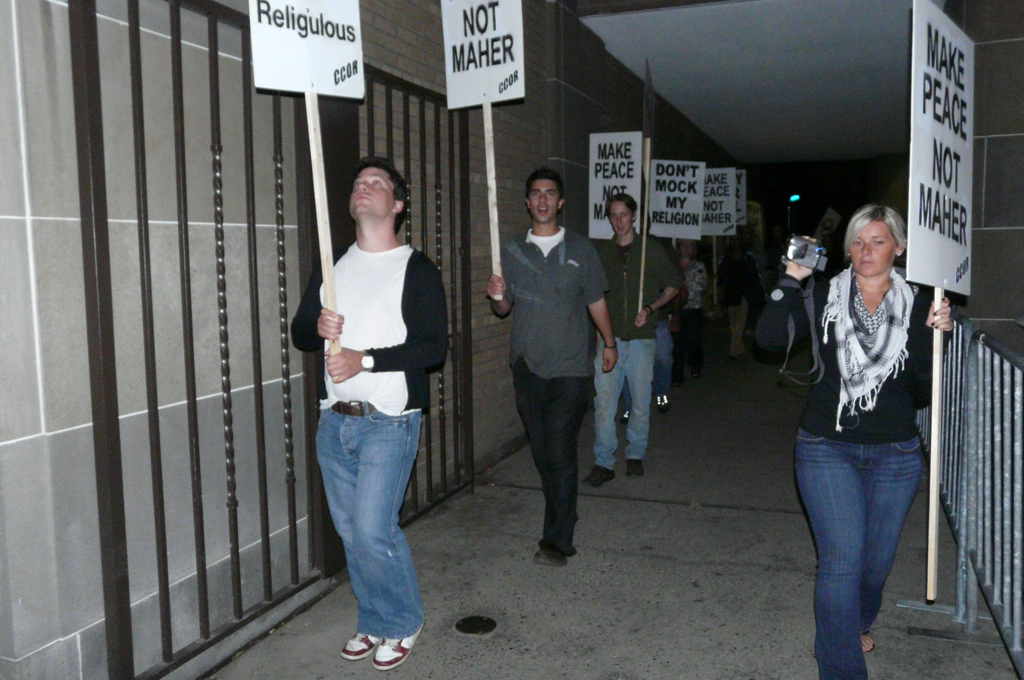 Protesters situate themselves outside Ryerson University awaiting the Arrival of Bill Maher for his new film, Religulous Check out even more great Tiff Photos and Videos at